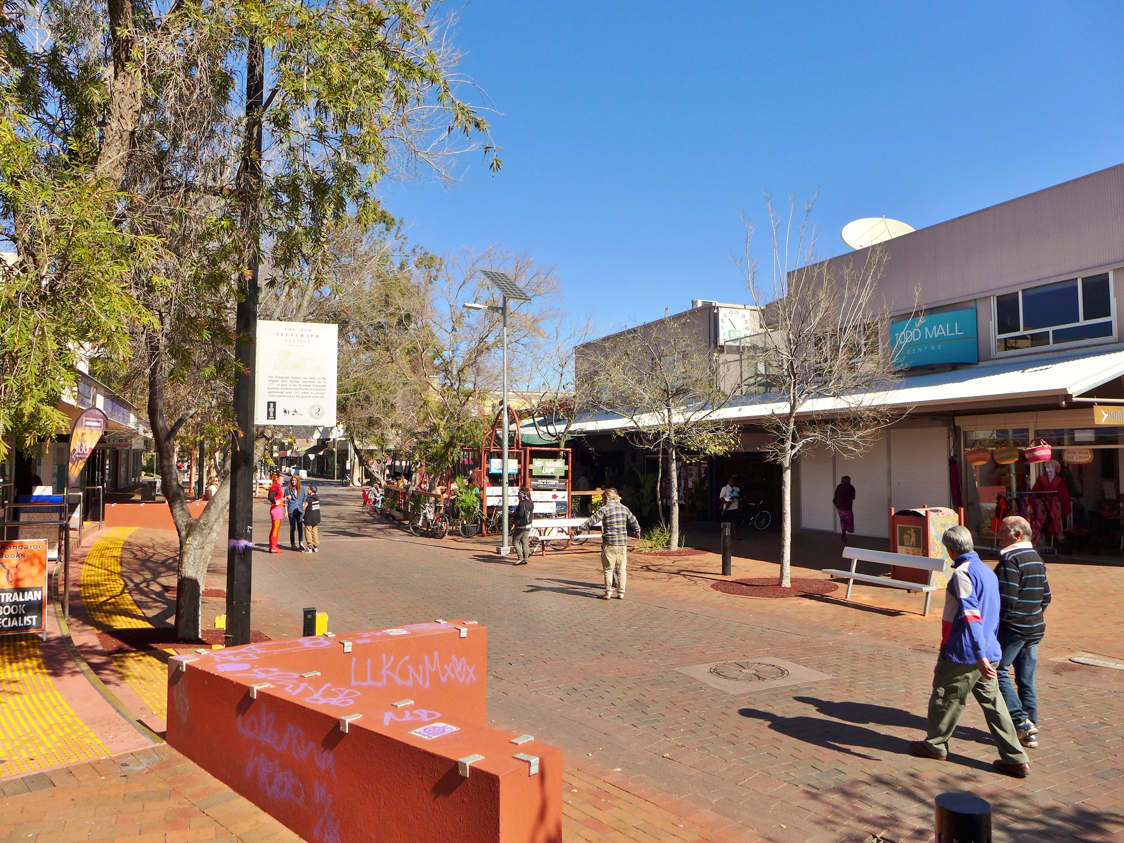 View of Todd Mall, Alice Springs, Australia.